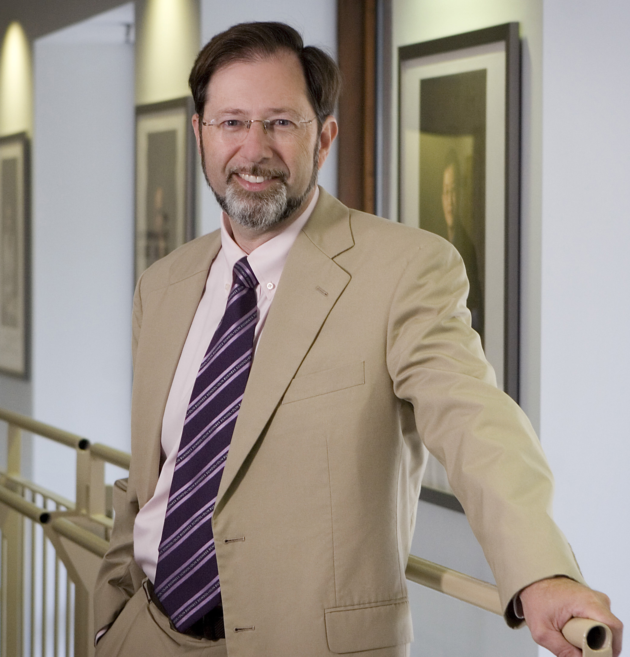 Campus photo